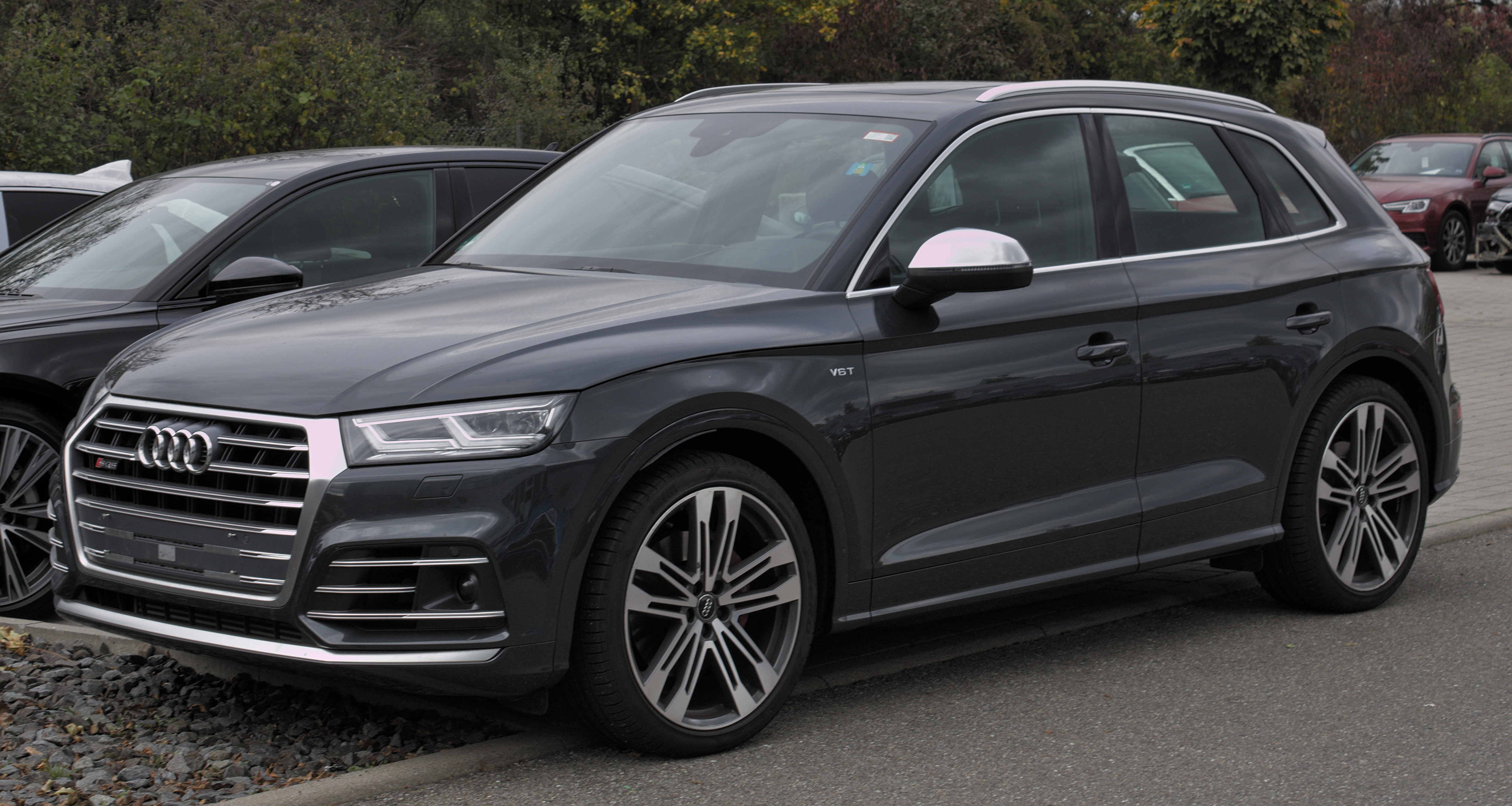 Audi_SQ5_(FY) in Stuttgart-Vaihingen